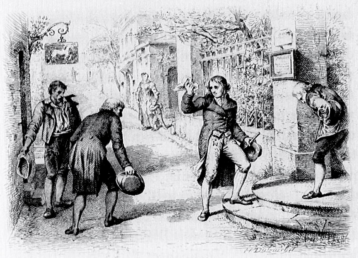 Illustration of The Red and the Black (1830) by Stendhal (1783-1842)